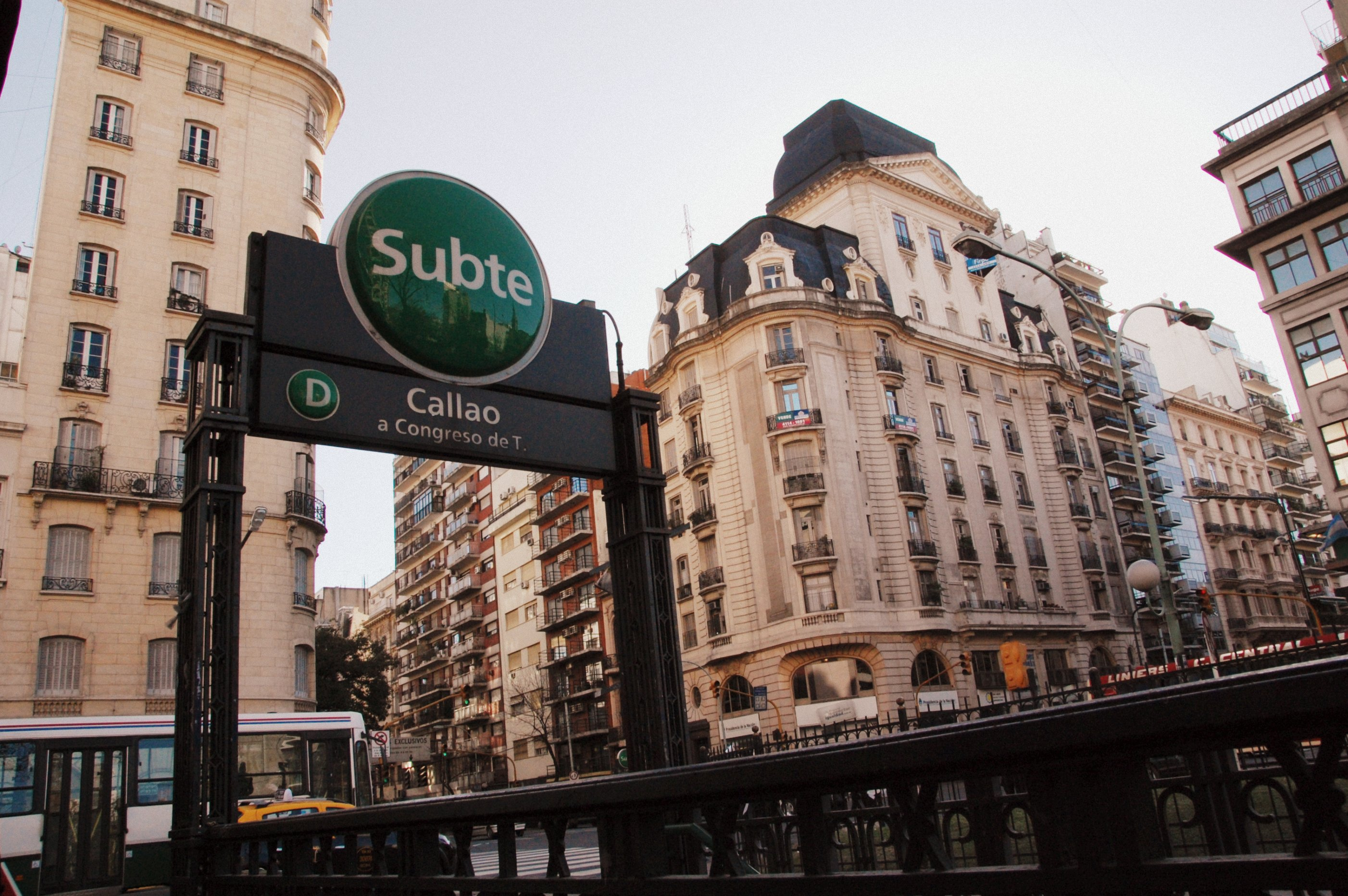 Callao Station, Buenos Aires Metro Line D, at the corner of Córdoba and Callao Avenues. The Tomás Devoto building (Ferruccio Corbellani, c. 1930) is visible to the right of the subway sign.